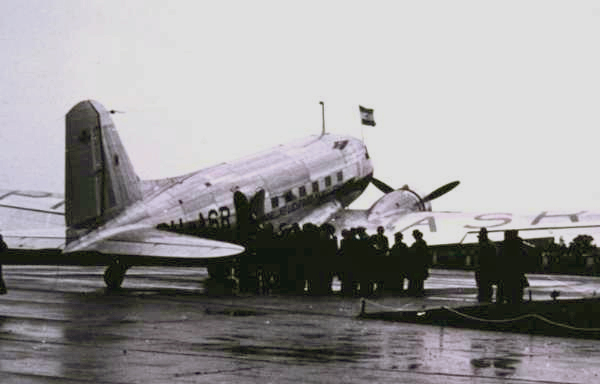 DC-3 of KLM in 1939 fitted with right-hand passenger door